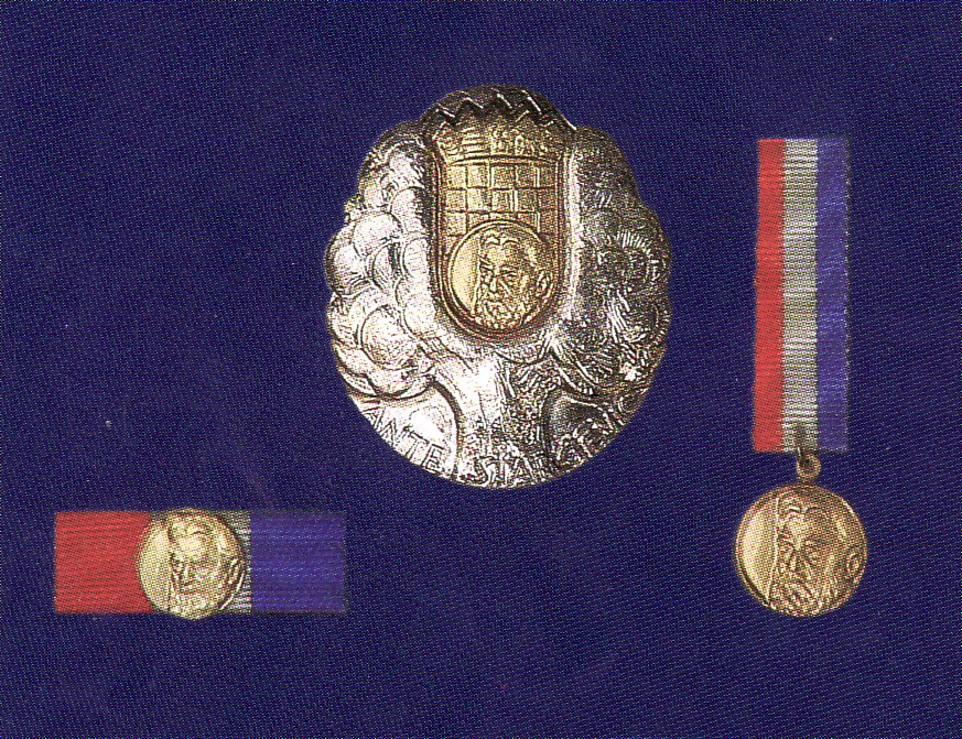 Badge and Ribbon of Order of Ante Starčević